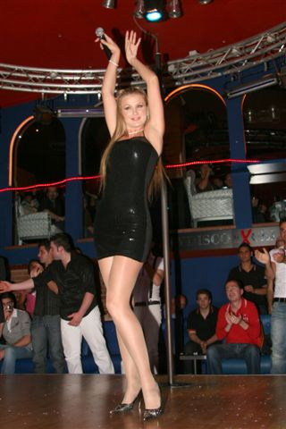 Eva Henger in her new role of singer, Florence, Italy